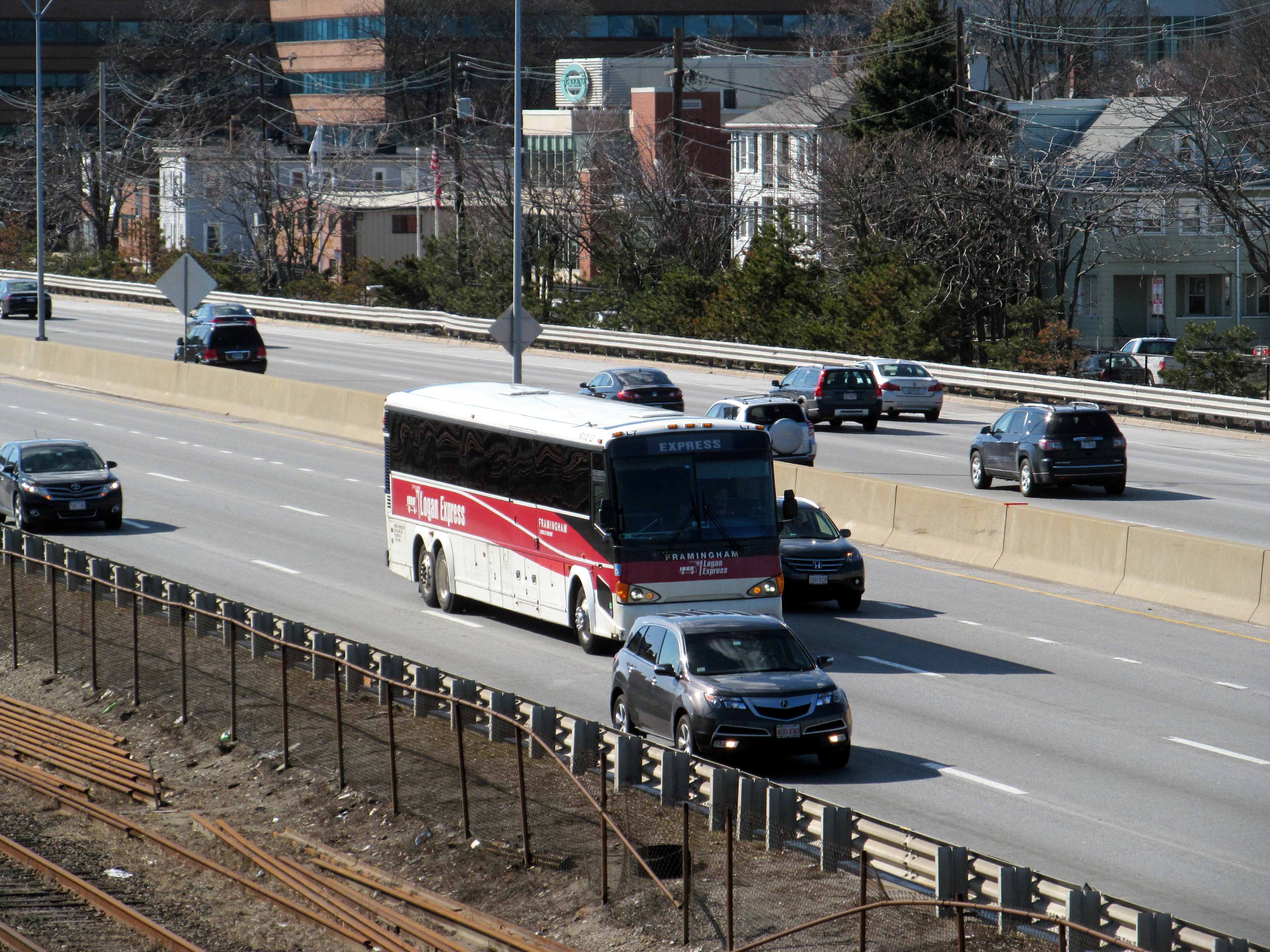 A Logan Express Framingham bus on the Massachusetts Turnpike near Everett Street in Allston in April 2017